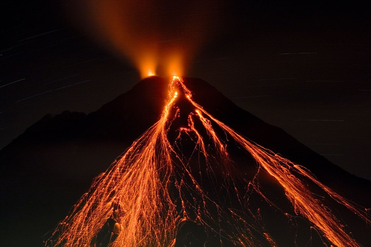 Matthew G. Landry, 2006.